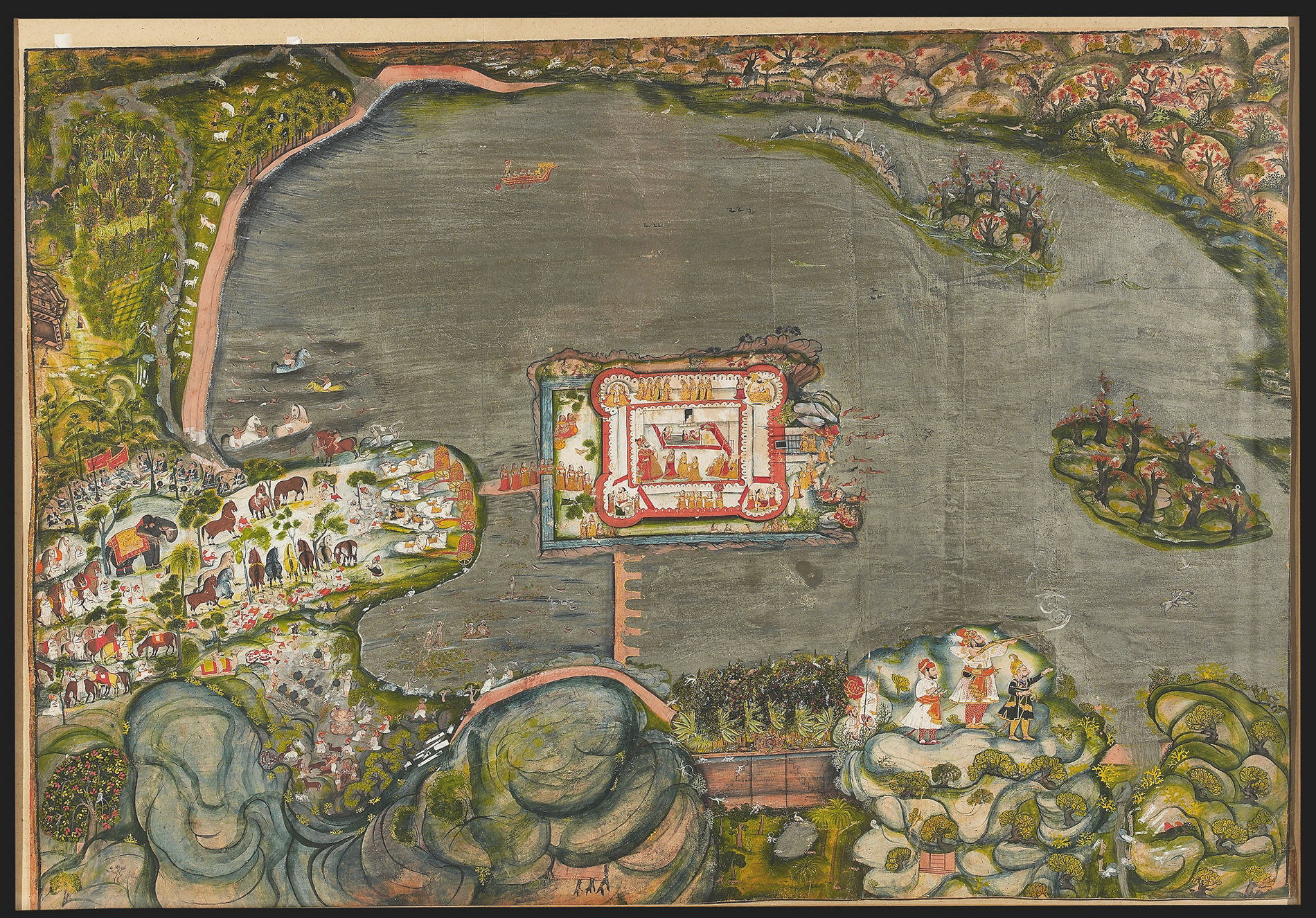 Bagta. Ravat Gokul Das II at Singh Sagar Lake Palace. Devgarh, Mewar, dated 1806, The Ashmolean Museum, Oxford.